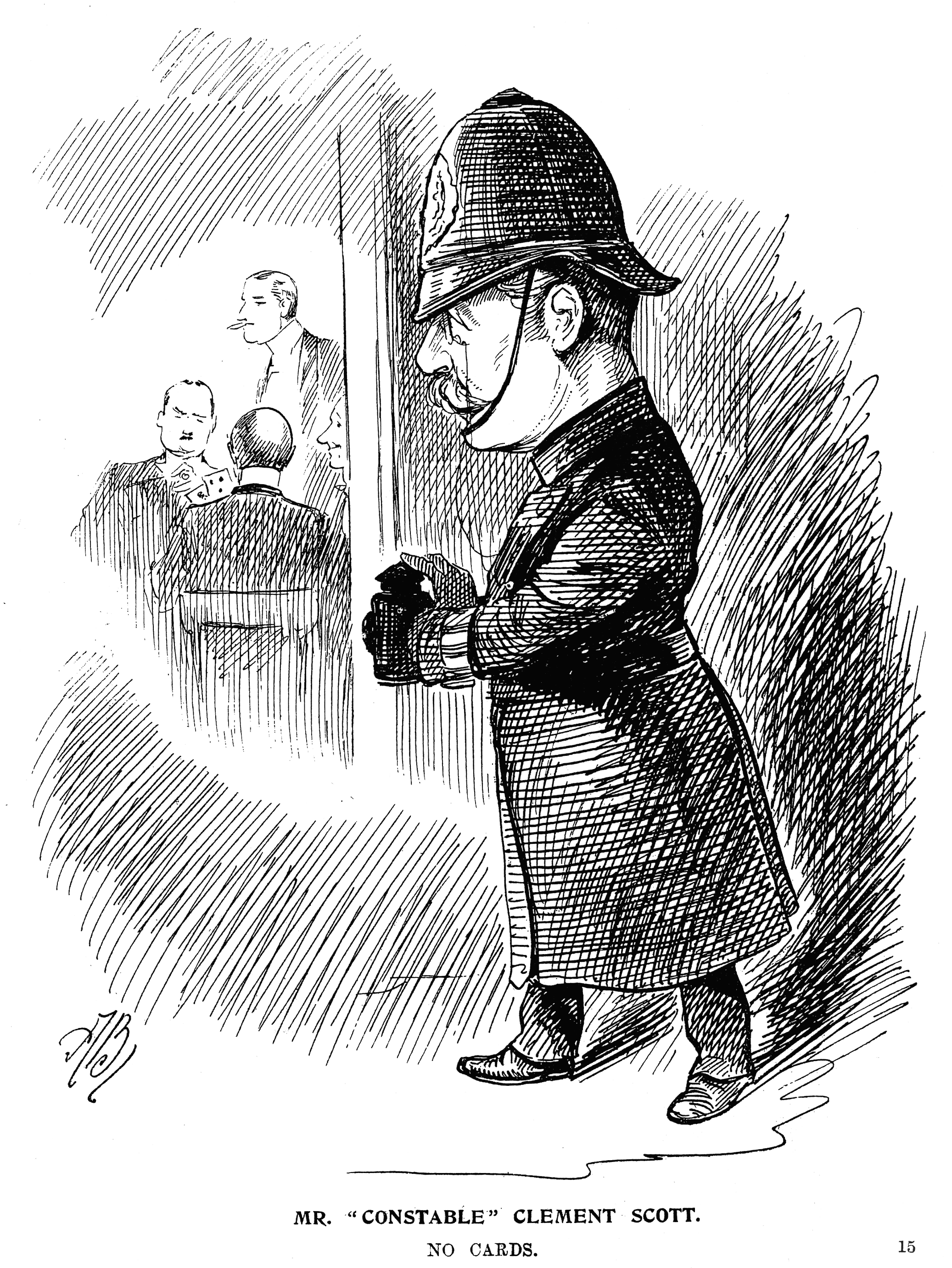 Clement Scott, during the period he was attacking Ibsen and Shaw as immoral.